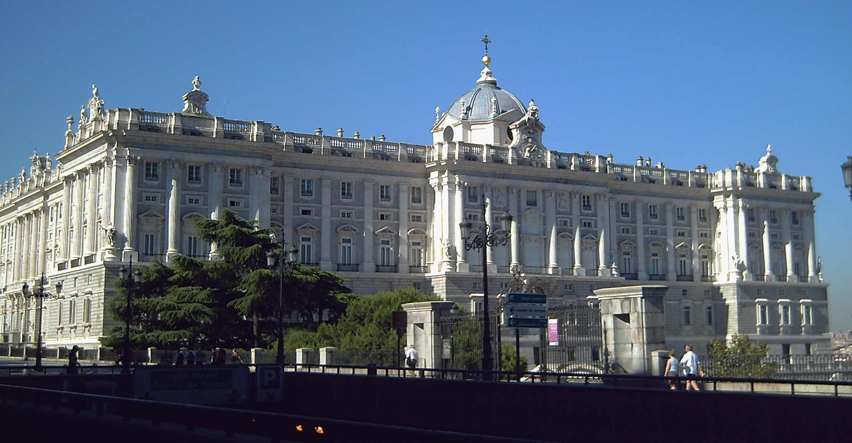 North façade of the Royal Palace of Madrid (1738–1764; 1778). Architects: Filippo Juvarra (1678–1736) and Giovan Battista Sachetti; extension and 1st alteration by Francesco Sabatini (1722–1797).